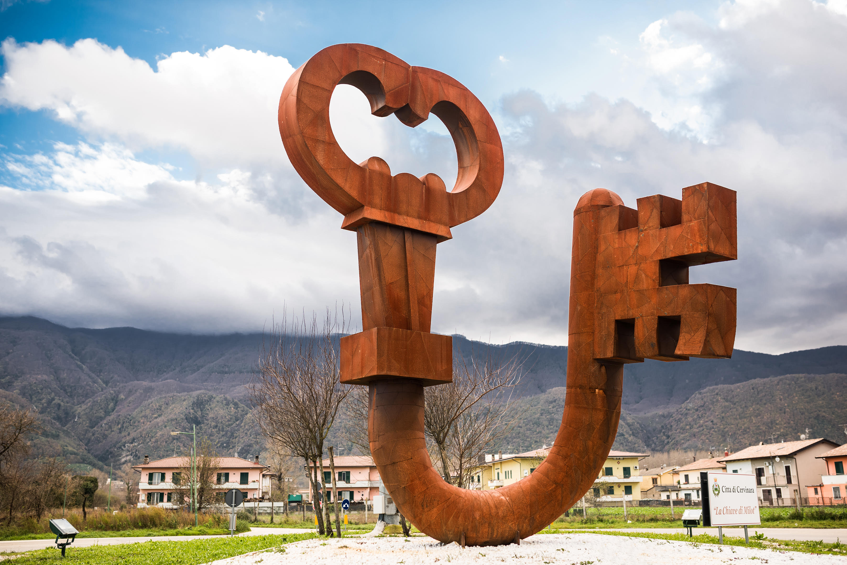 Public art sculpture "Chiave di Cervinara" (Key of Cervinara), 2017 by Italian Albanese artist Alfred Milot Mirashi